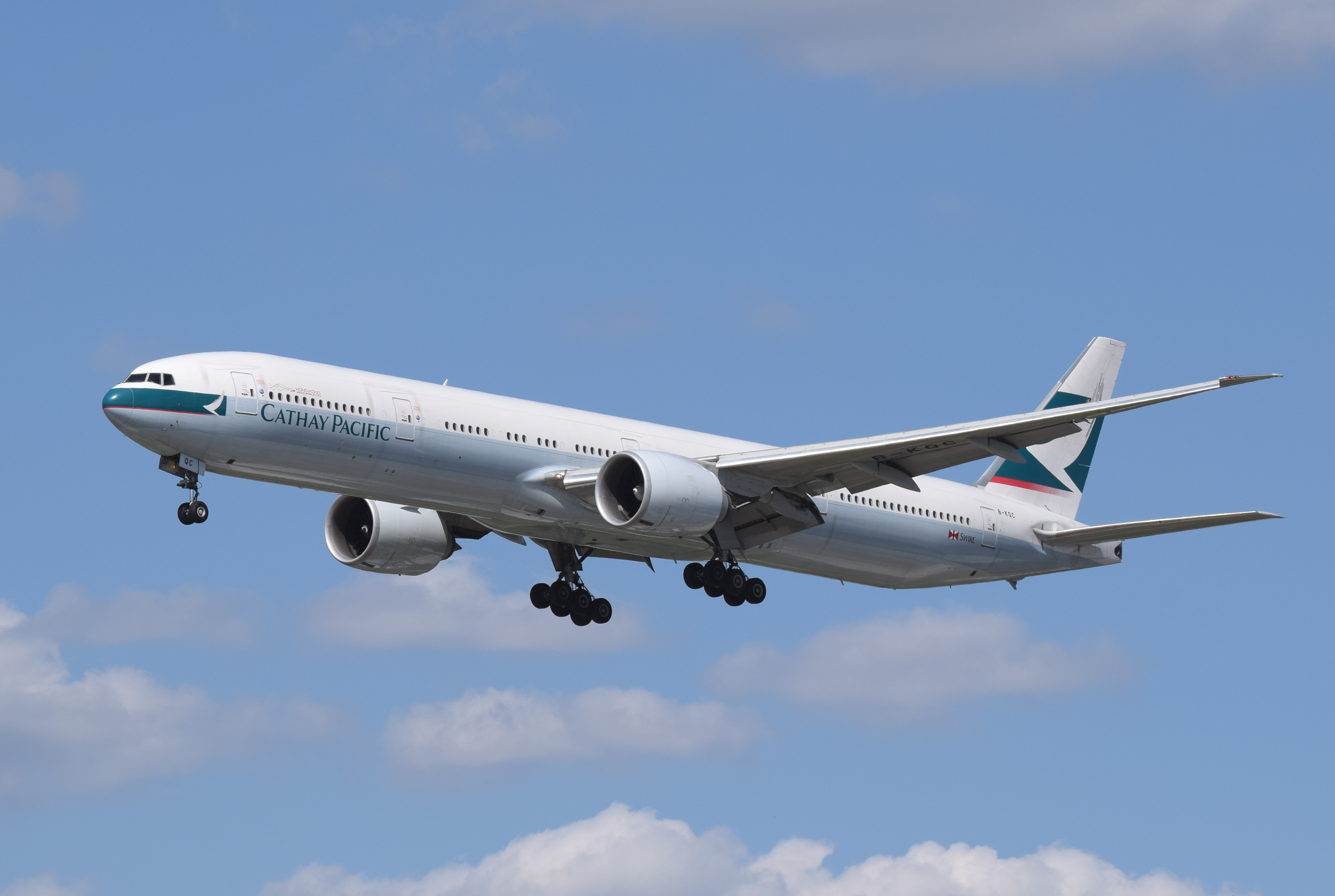 Cathay Pacific Boeing 777-300ER (B-KQC) arrives London Heathrow Airport, England.